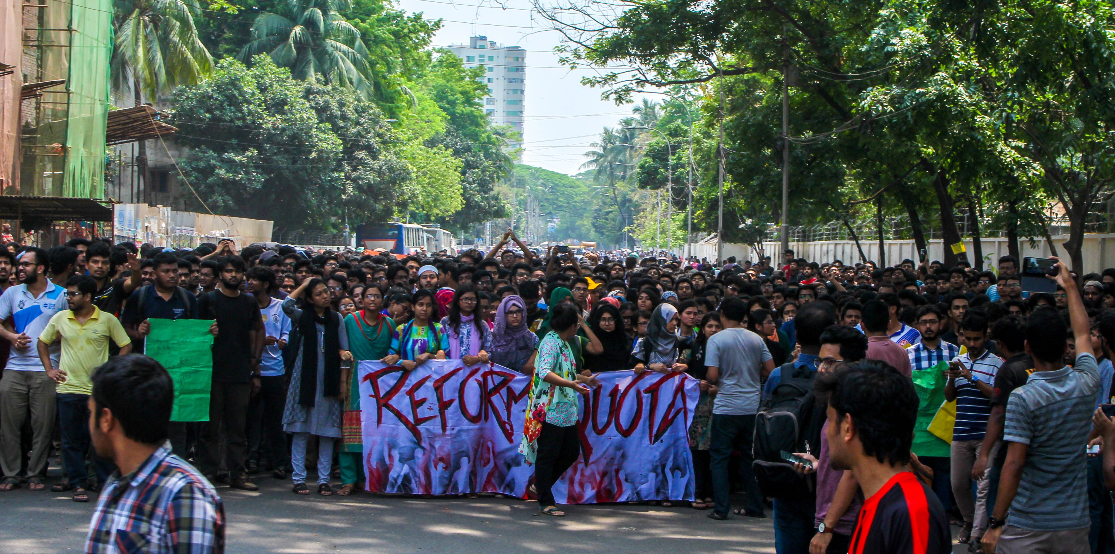 Students of Bangladesh University of Engineering and Technology protesting to reform quota system in government service.